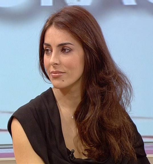 Catarina Furtado no Portugal no Coração em 22/3/2012